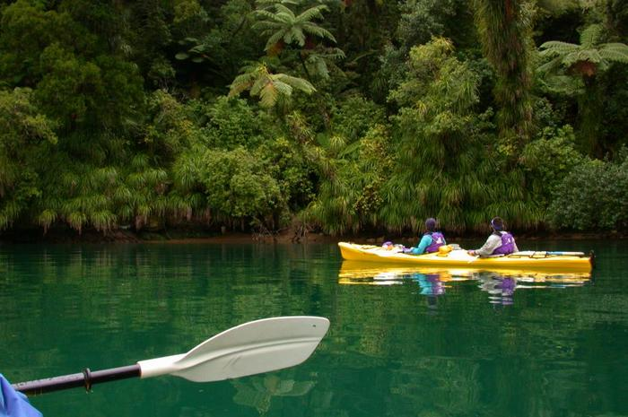 Description by PhiloVivero: Ocean kayaking on the Marlborough Sounds. I took this photograph when kayaking on the Marlborough Sounds. It was an adventure, and I won't ever do it again. The winds picked up, a storm came in, and I had to paddle for an hour against the wind to get back to our camp site. I've never been in so much pain.